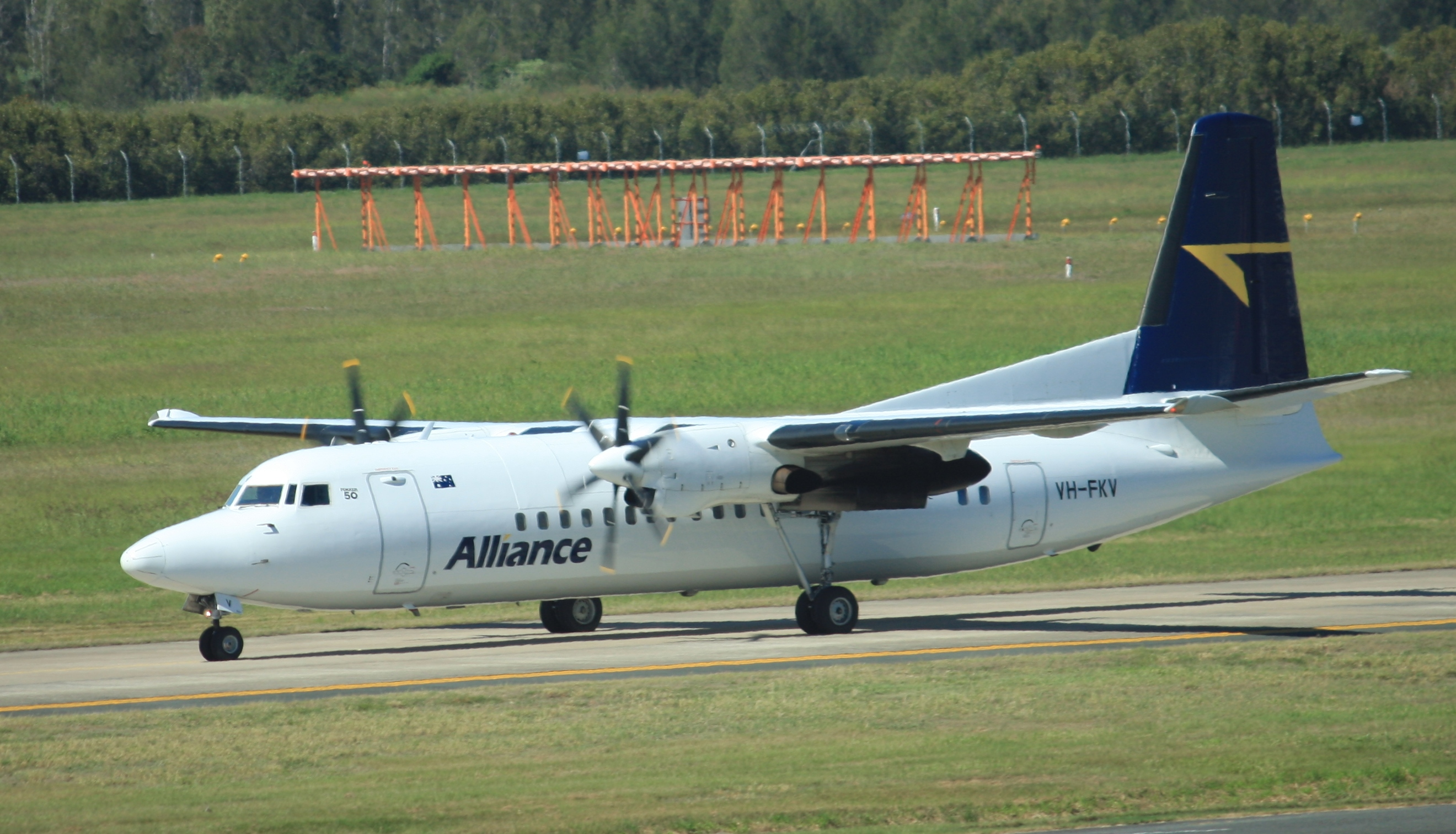 Brisbane (- Eagle Farm) (BNE / YBBN) Australia - Queensland, April 24 2014.